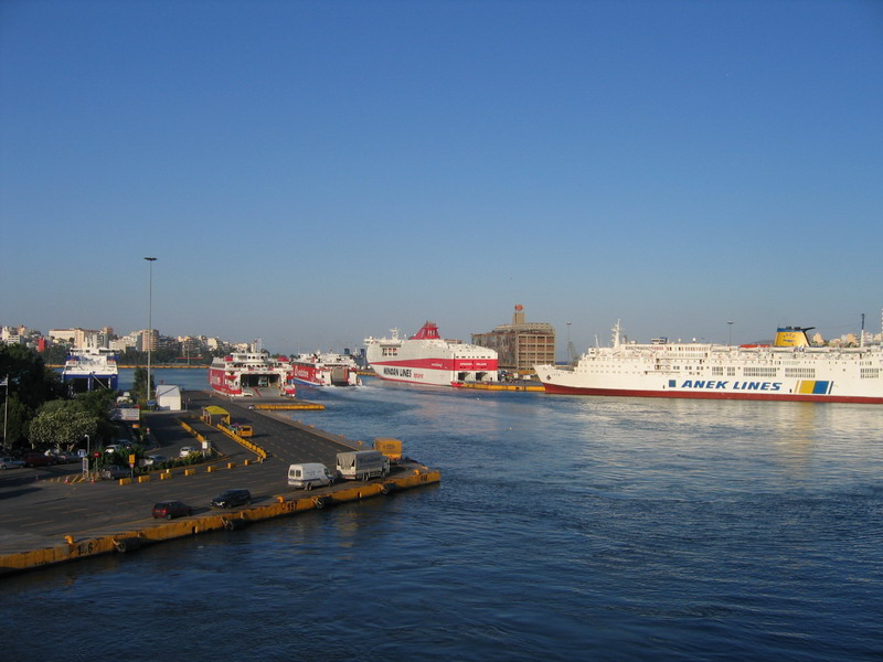 Piraeus port of Athens